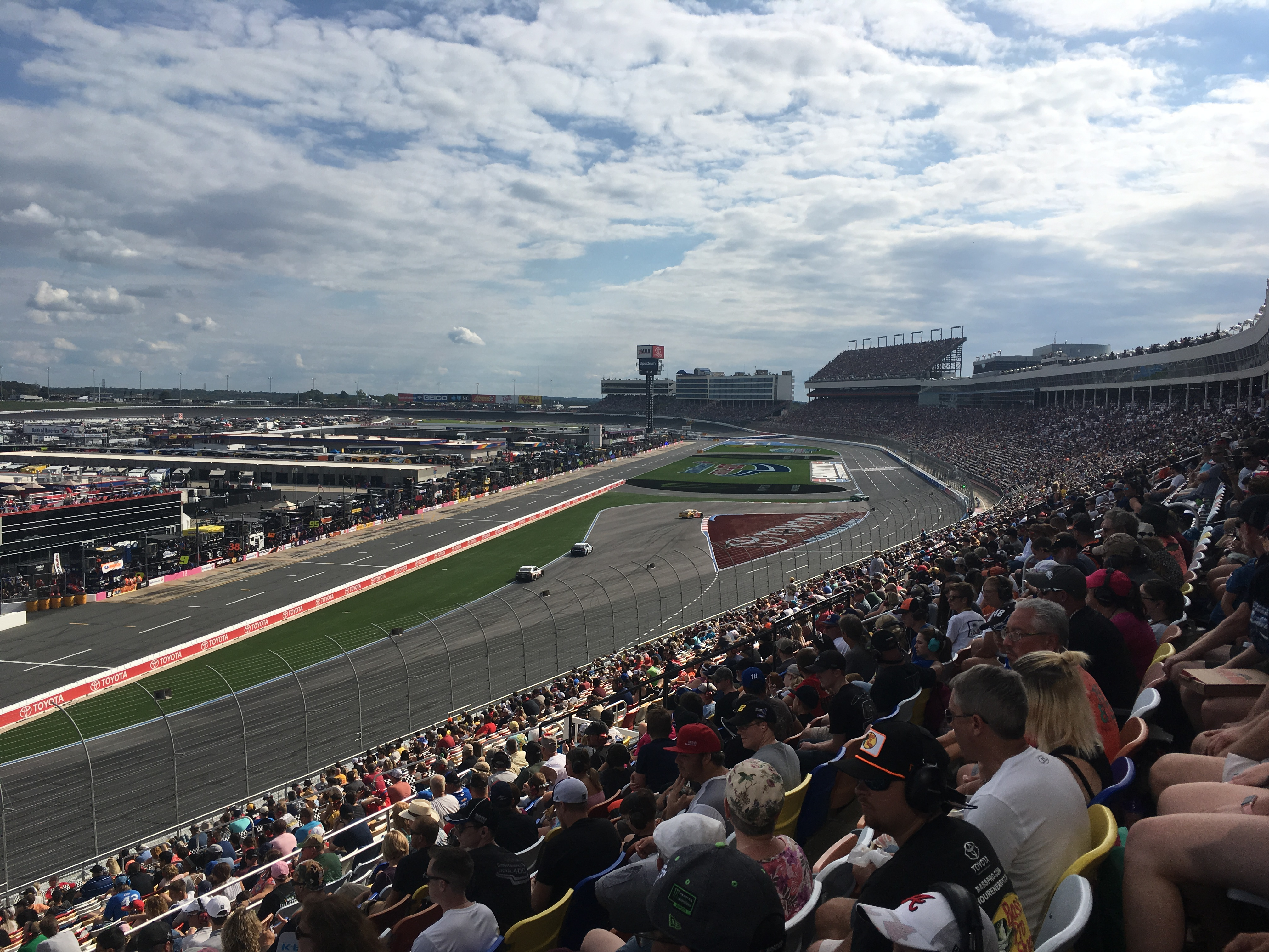 The 2018 Bank of America Roval 400 at Charlotte Motor Speedway viewed from the frontstretch. Kyle Larson (#42) leads Kyle Busch (#18) and the rest of the field during the the second stage.